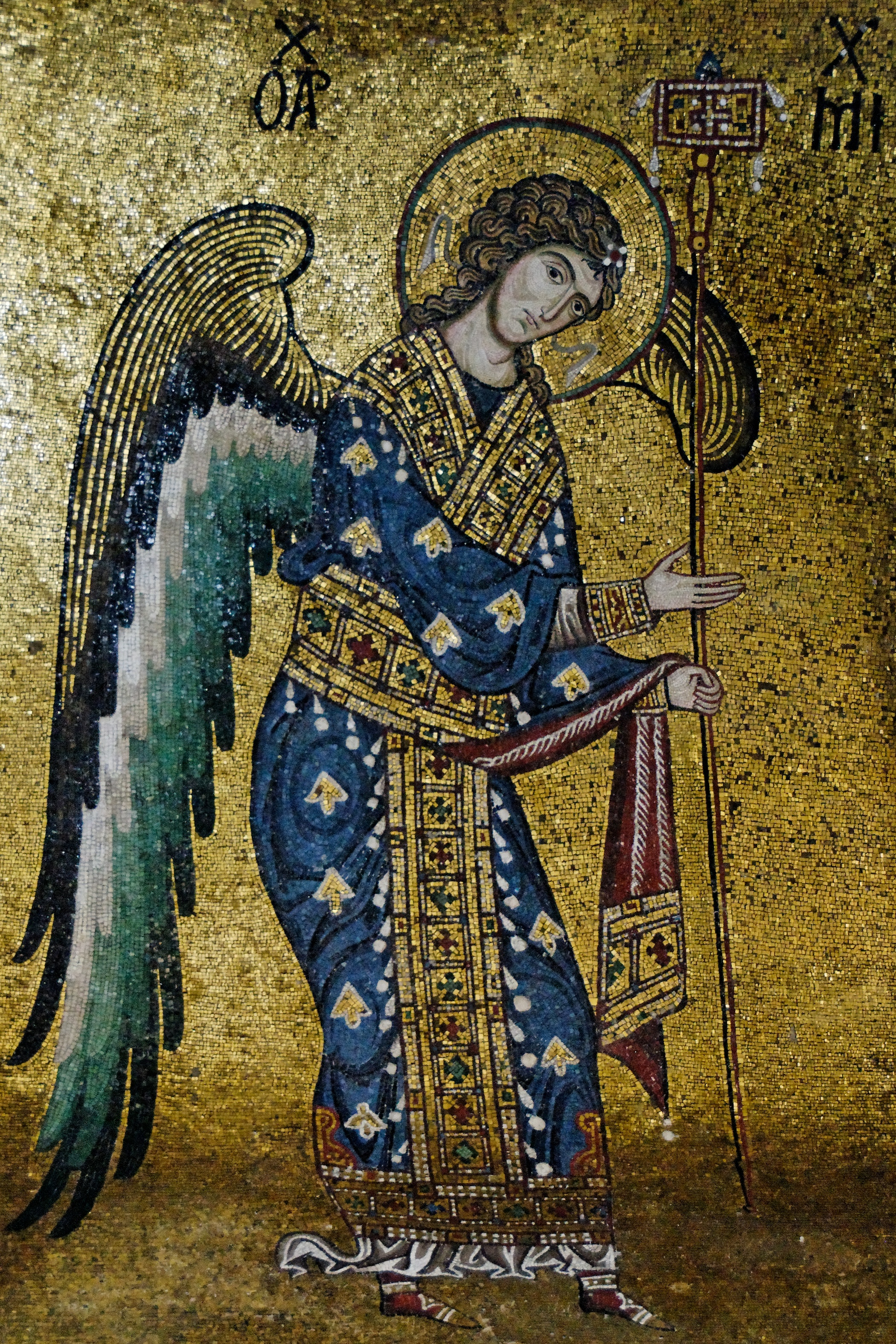 St Michael. 12th-century mosaic from the Byzantine part of La Martorana, also known as Santa Maria dell'Ammiraglio in Palermo, Sicily.